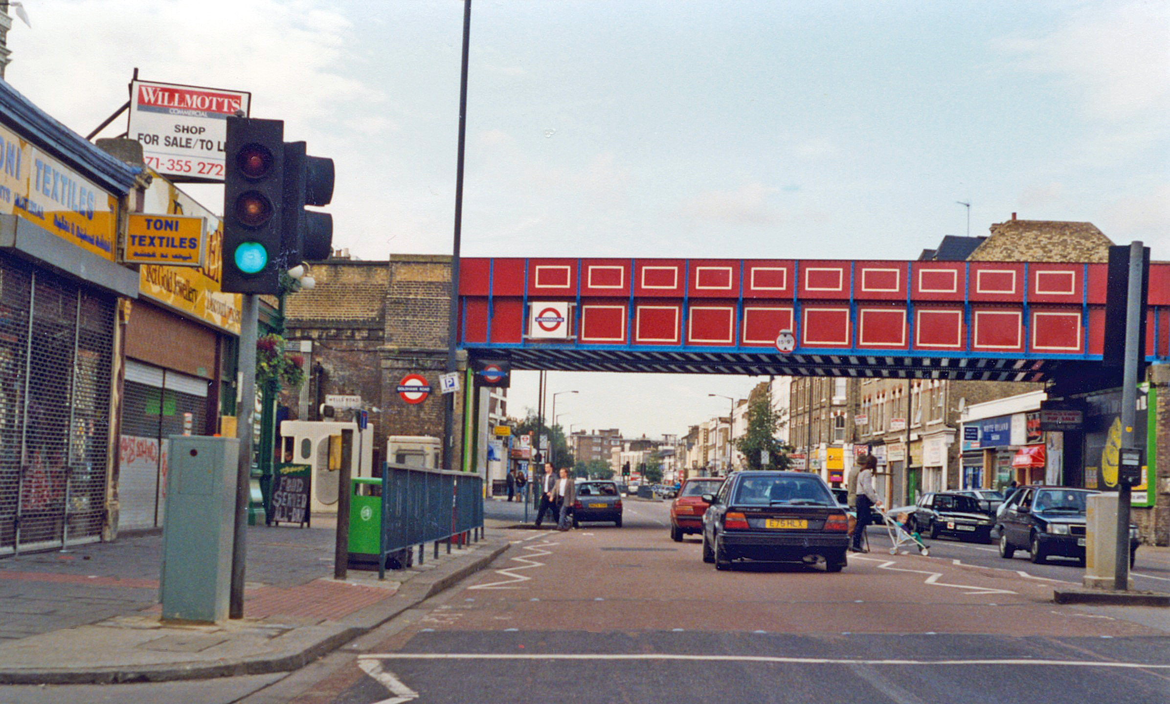 Bridge and entrance to Goldhawk Road station, 1993. View westward on Goldhawk Road at Wells Road: London Underground Hammersmith & City (former GW & Metropolitan Joint).